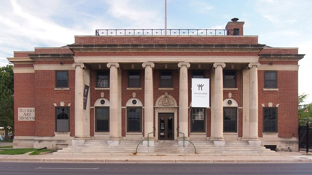 The Rourke Art Museum (formerly a Federal Courthouse & Post Office), 521 Main Ave, Moorhead, Minnesota, USA. Viewed from the north.